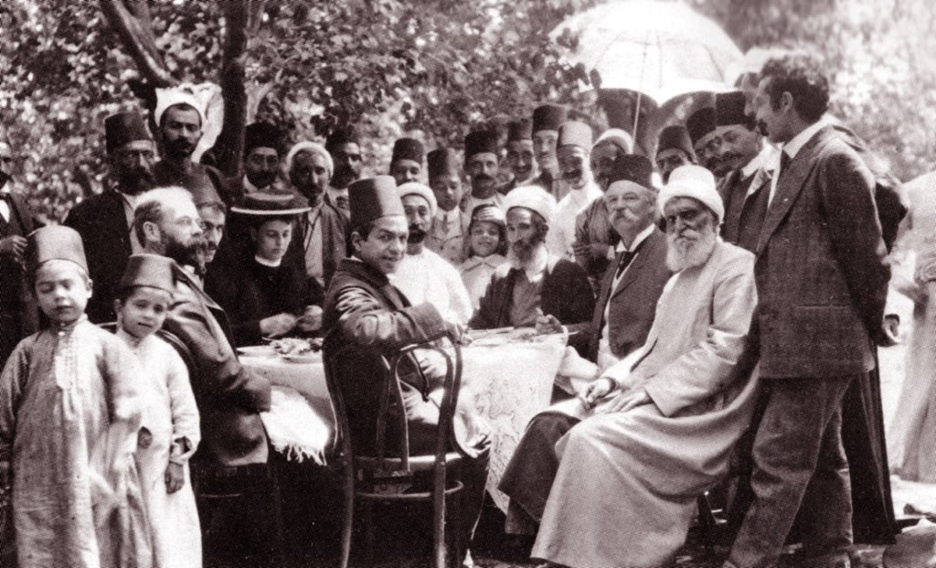 Thornton Chase with a group of Bahá'ís in Cairo, Egypt in 1907. Seated beside him to the left is Mírzá Abu'l-Faḍl-i-Gulpáygání, a prominent Bahá'í scholar.